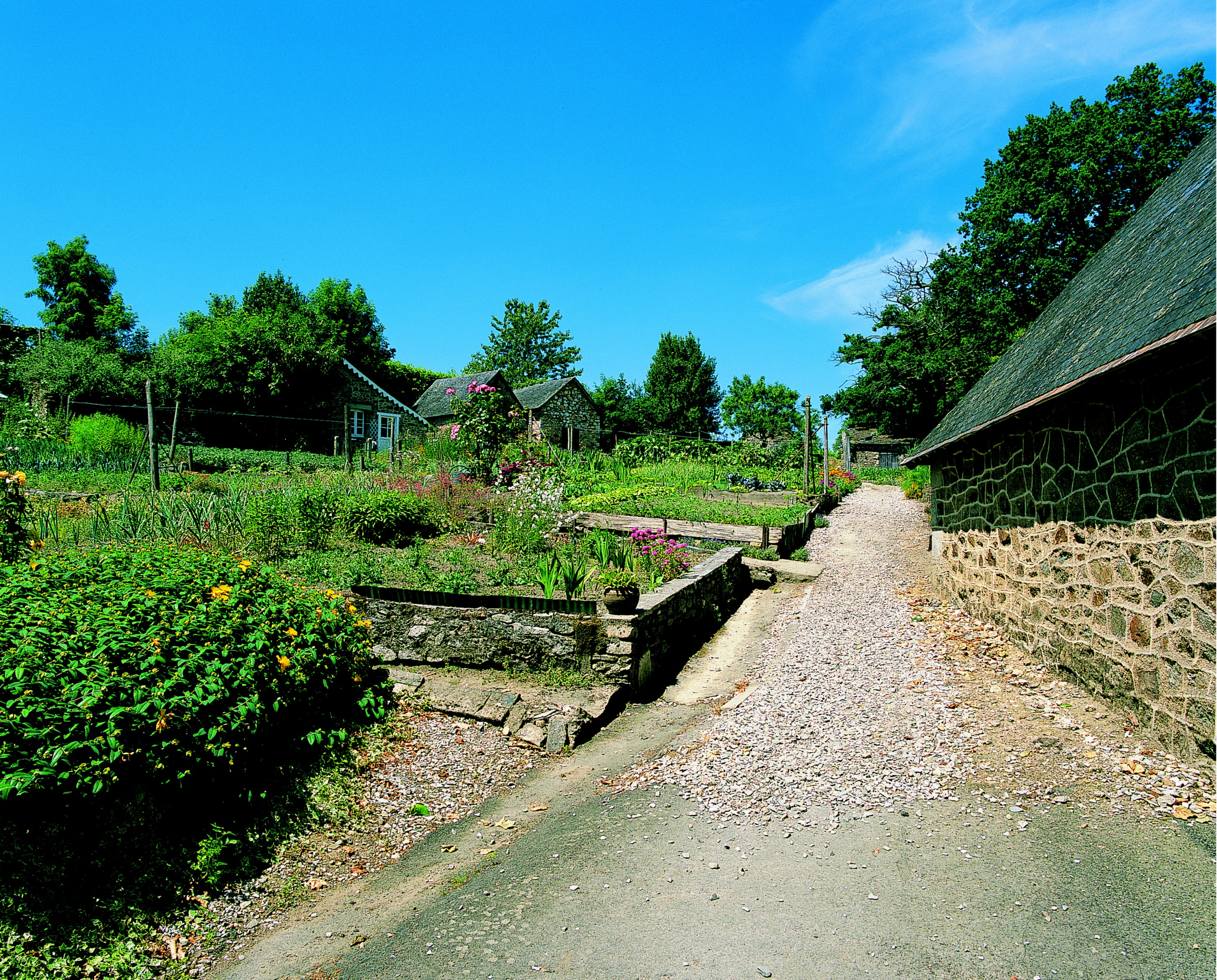 Les jardins du village aujourd'hui